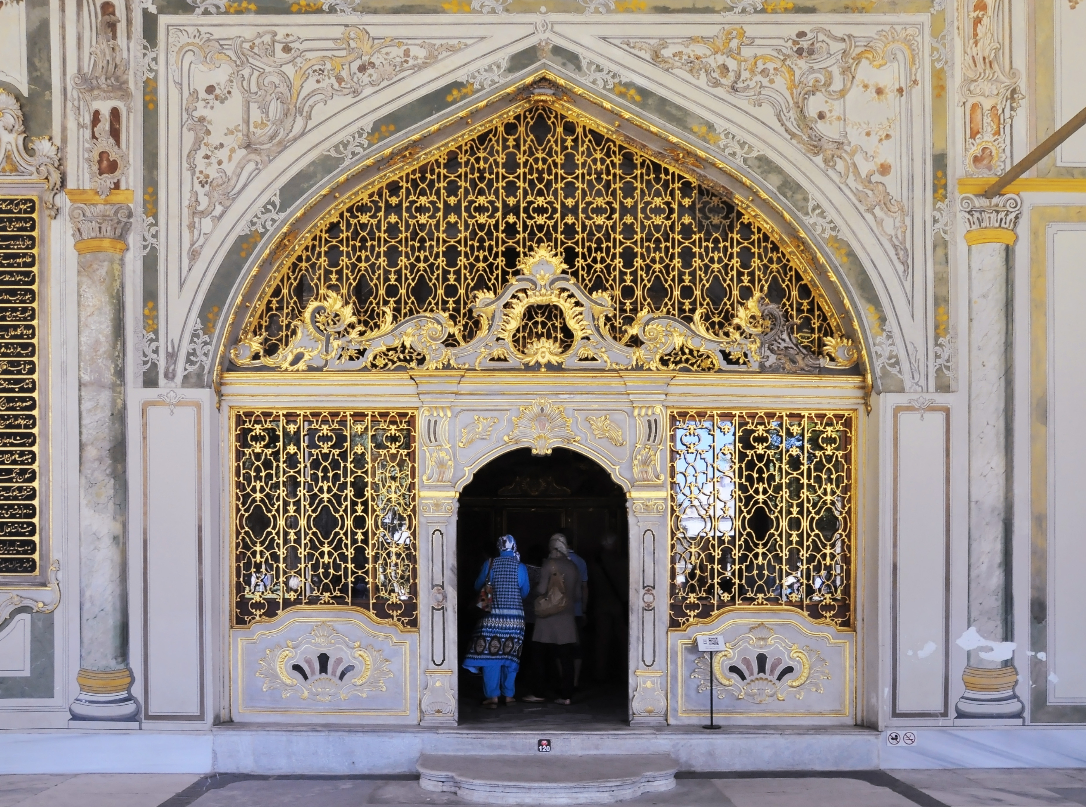 Door of the Imperial Council (Dîvân-ı Hümâyûn) in the Topkapı Palace in Istanbul, Turkey.